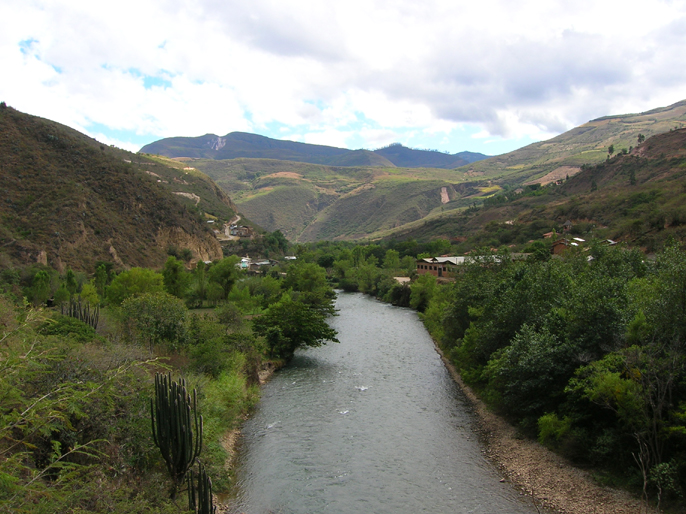 The village El Tingo, Tingo District, Peru and the Utcubamba River.